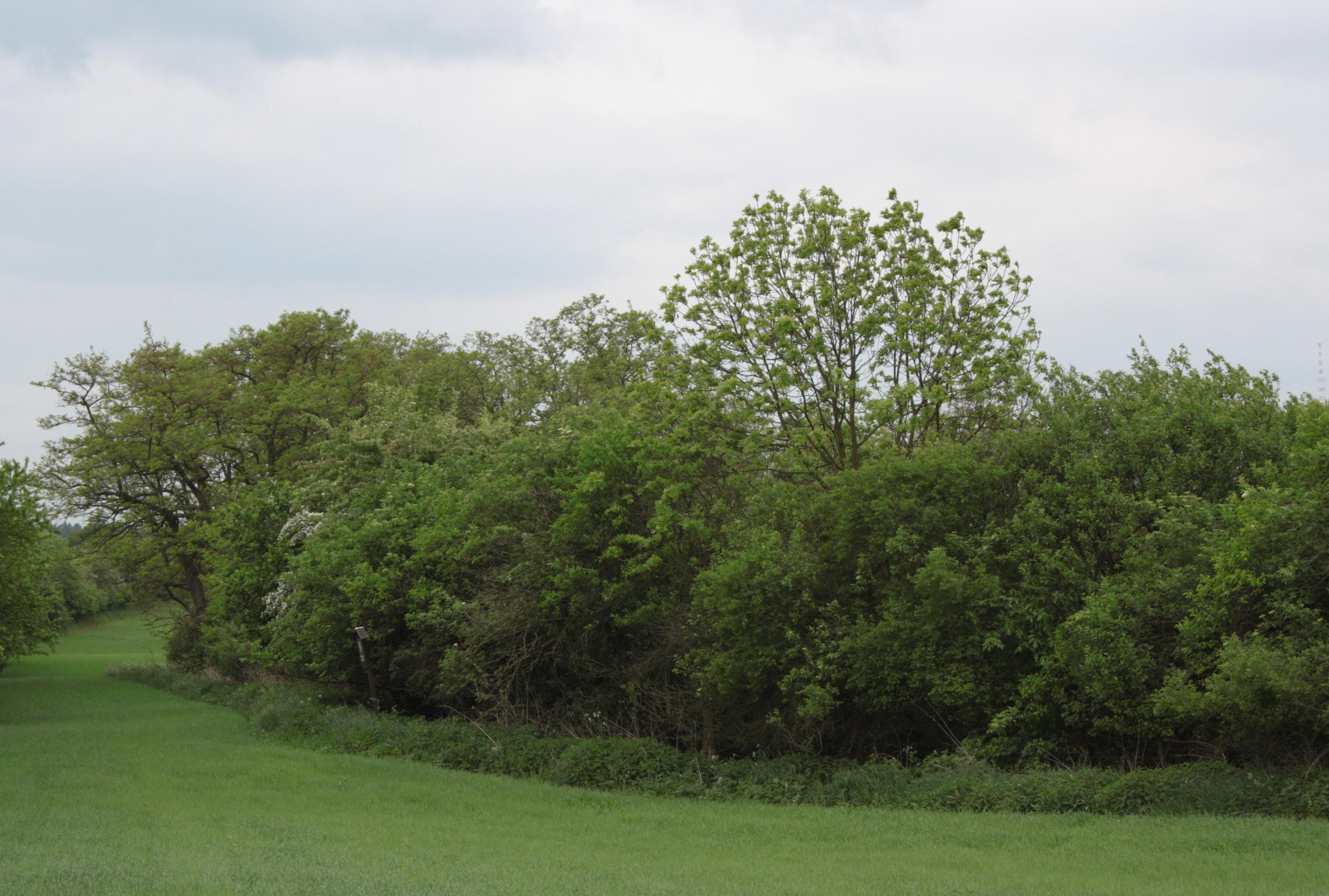 Natural monument Mrzínov, Mělník District, Central Bohemian Region, Czech Republic